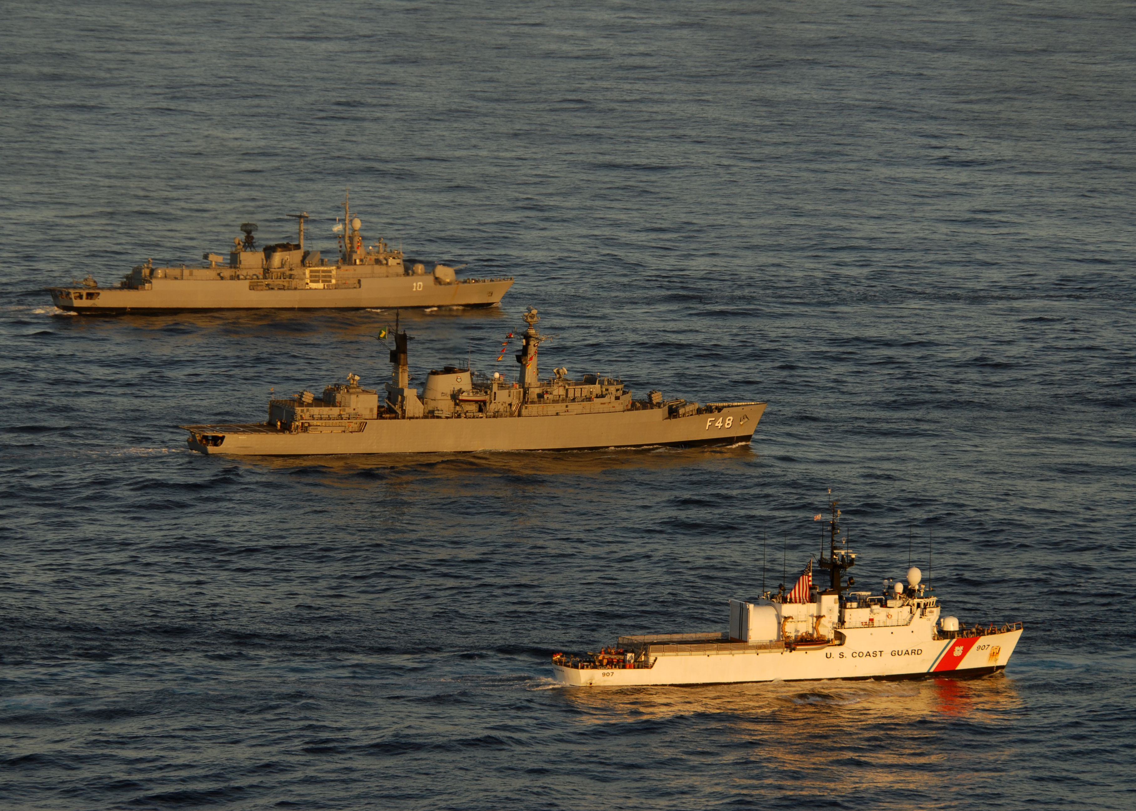 ATLANTIC OCEAN (May 4, 2011) The U.S. Coast Guard cutter USCGC Escanaba (WMEC 907), Brazlian navy ship BNS Bosisio (F 48) and Argentinian navy ship ARA Almirante Brown (D-10) move into formation for a photo exercise during the Atlantic phase of UNITAS 52. The formation included a total of ten ships from the U.S., Brazil, Mexico and Argentina. UNITAS Atlantic is a multinational exercise as part of Southern Seas 2011. (U.S. Navy photo by Mass Communication Specialist 1st Class Steve Smith/Released)